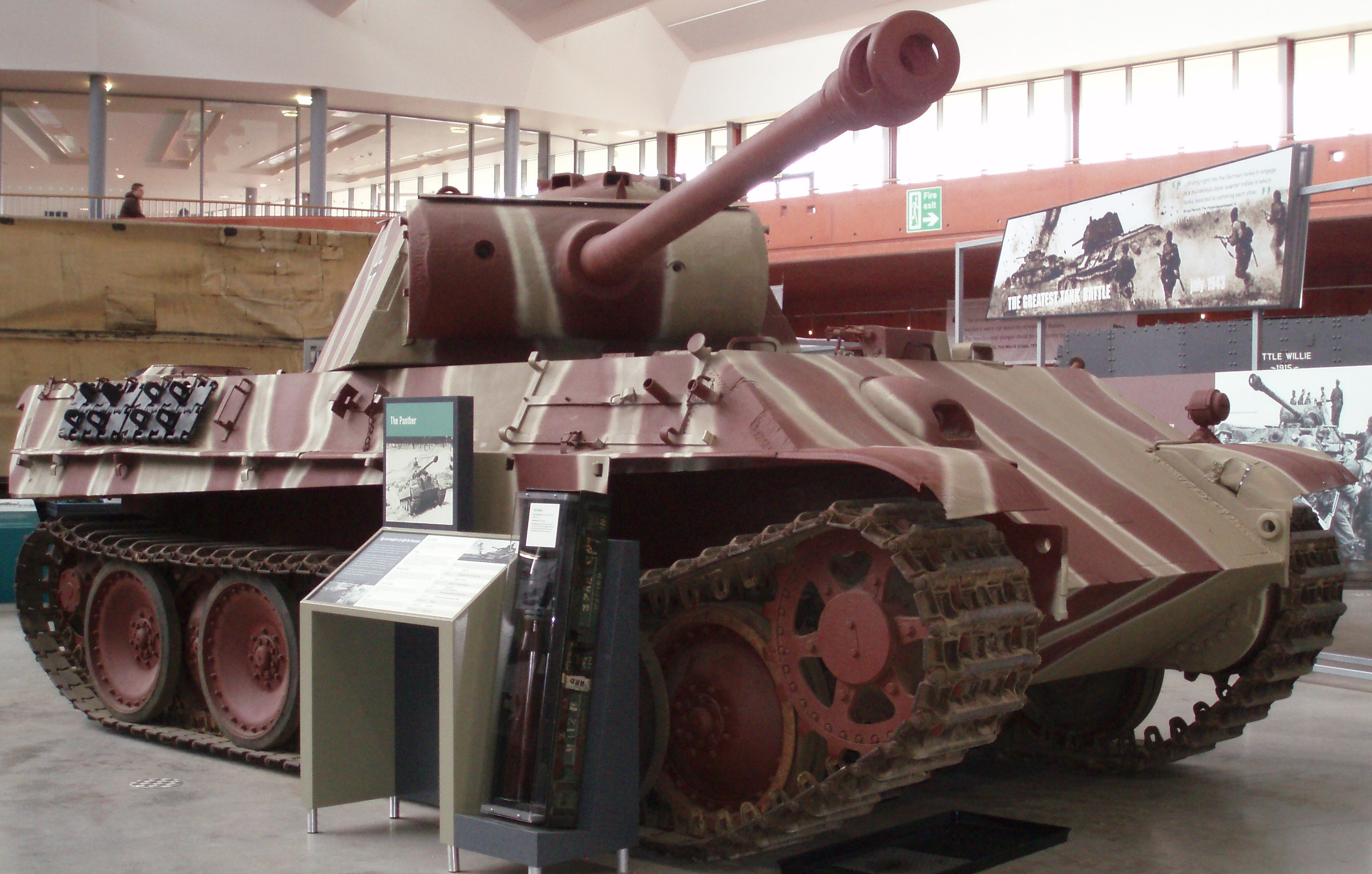 Bovington Tank Museum 102 panther